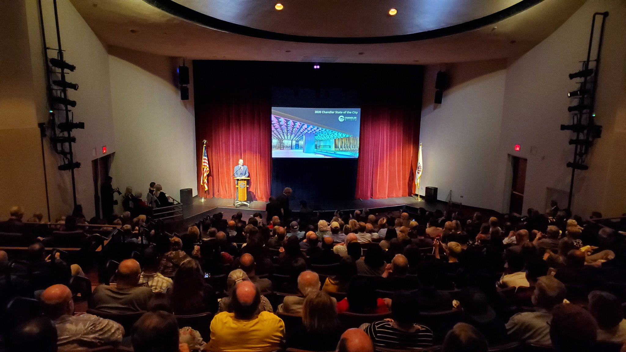 Good to be in @cityofchandler tonight to hear from Mayor @KevinHartke. The state of the city of Chandler is strong and vibrant. Thanks to everyone working to make this city a great place to live. #AZ05